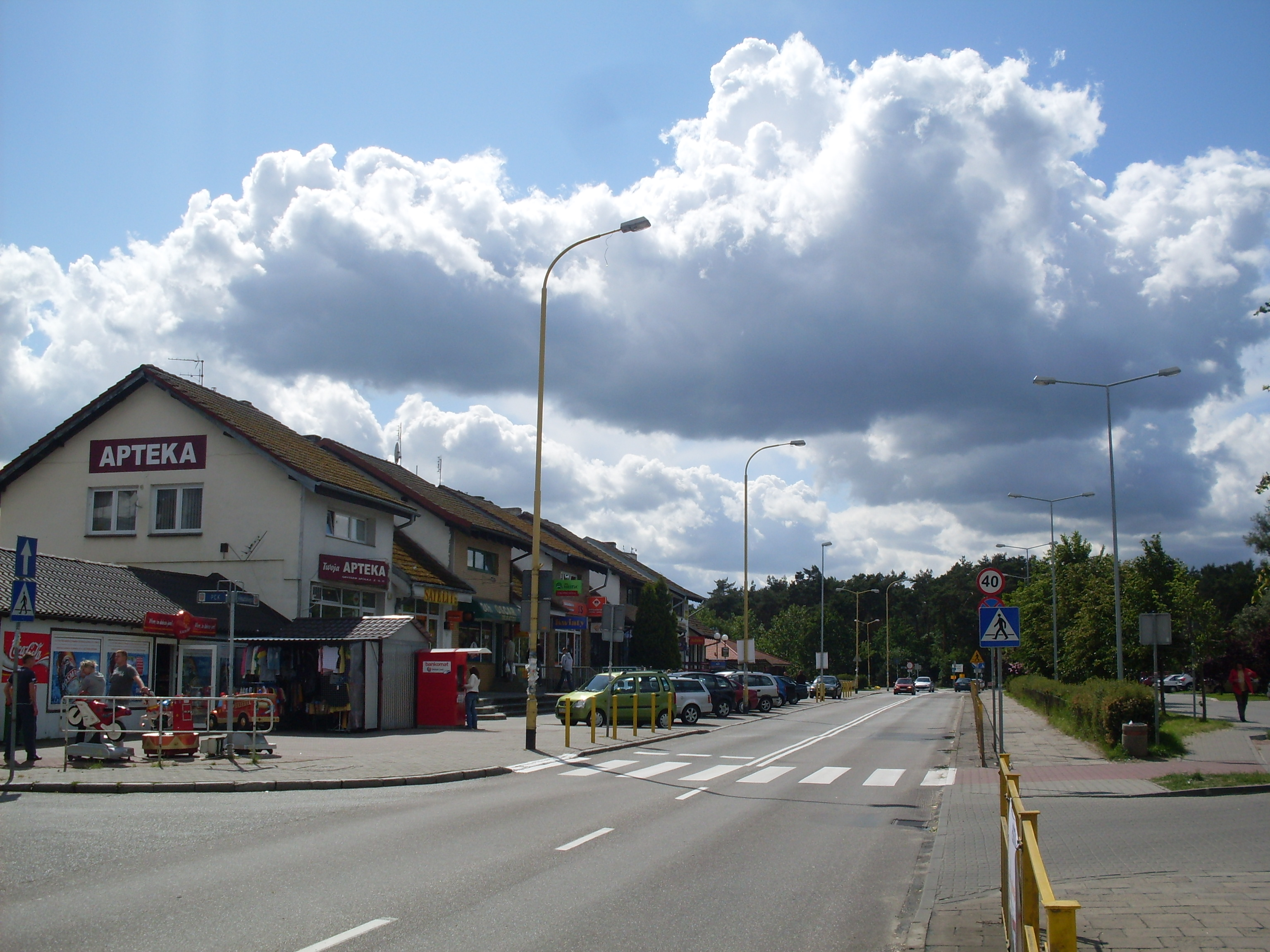 Shops on Piłsudskiego Street in Police, Poland